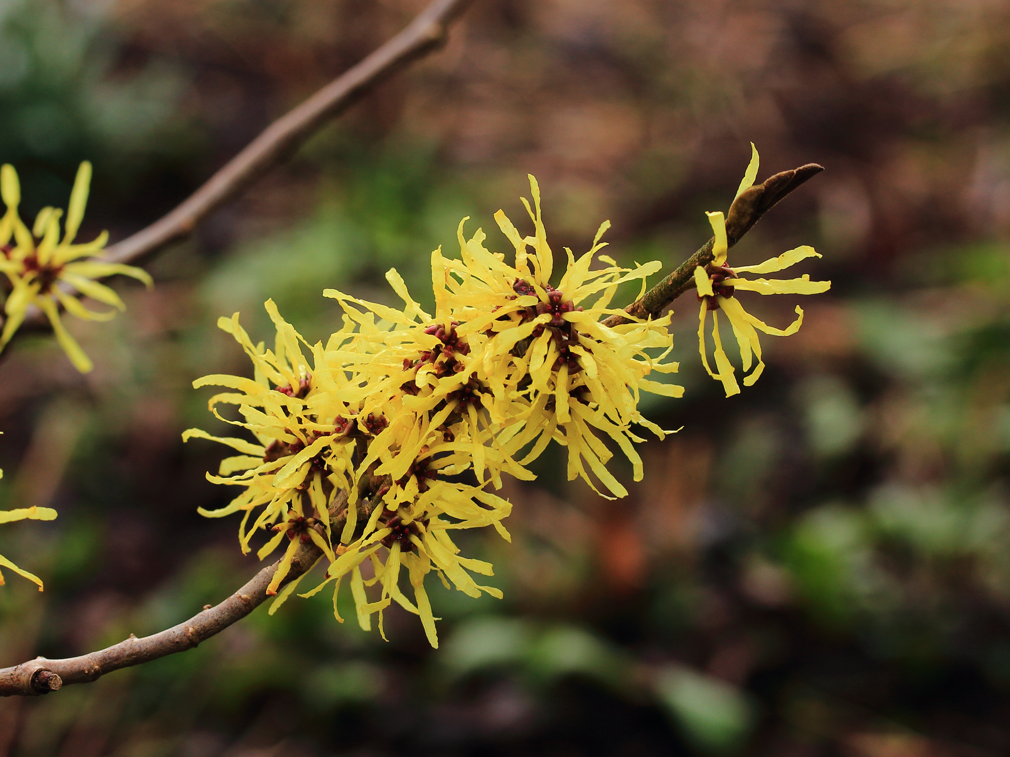 Hamamelis x intermedia 'Angelly' (witch hazel). A nice selection of † Jan Van Heijningen.